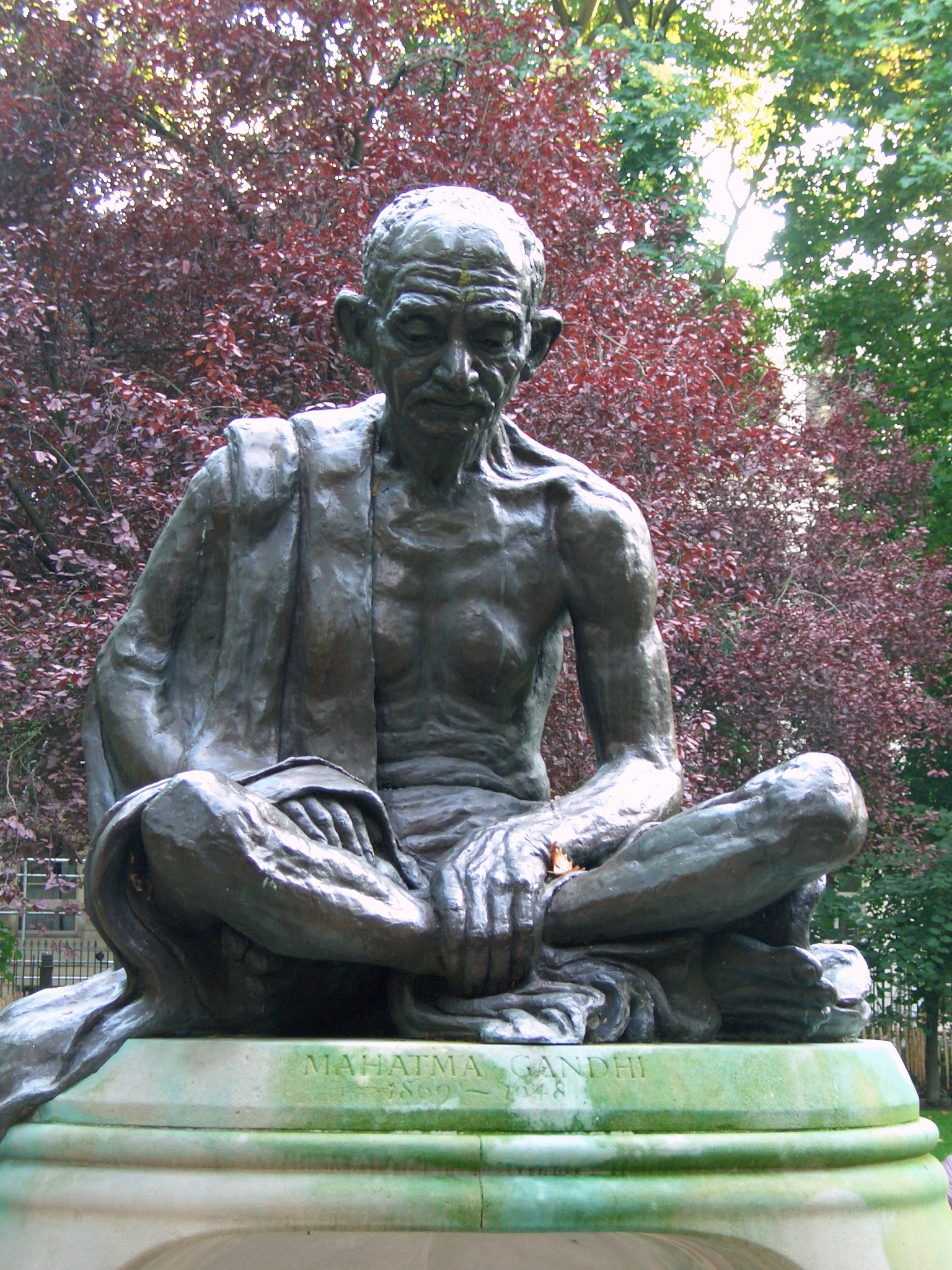 Statue of Mahatma Gandhi by Fredda Brilliant, in Tavistock Square, London, UK. This statue was unveiled in 1968.